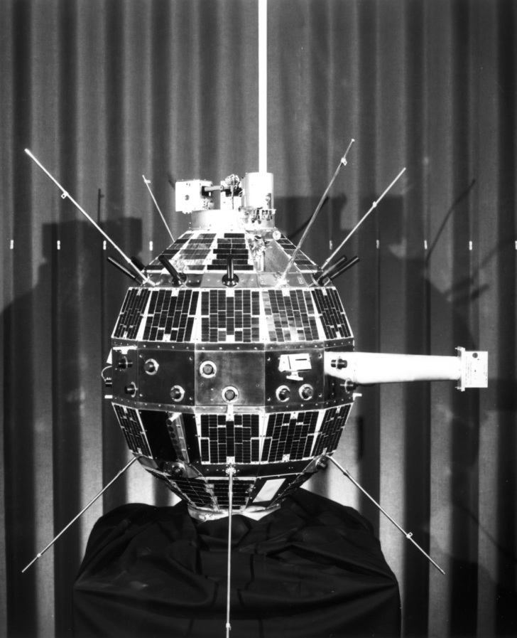 Poppy ELINT Satellite (Type 2)